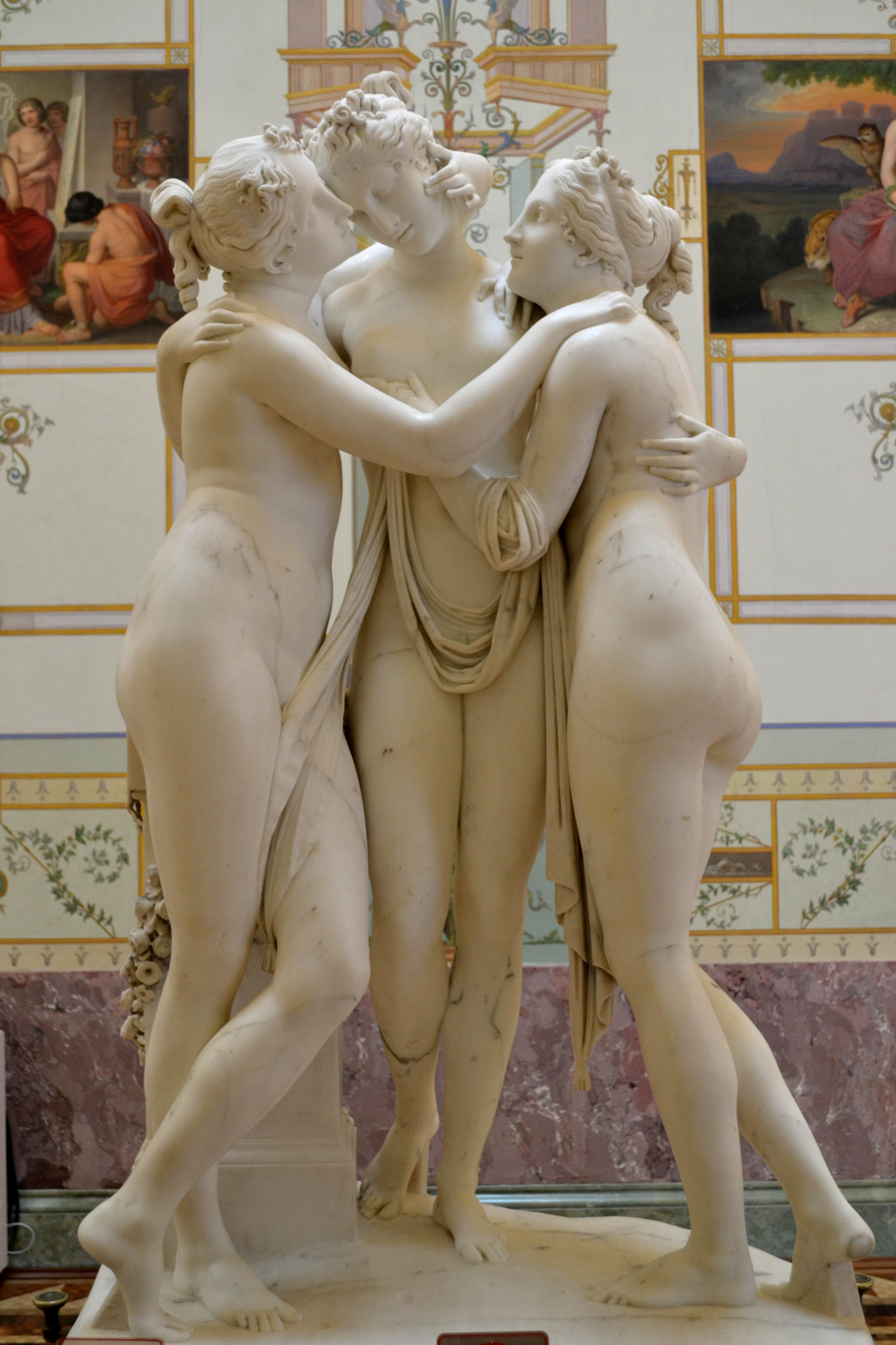 From the youngest to oldest the Graces were: Aglaea ("Beauty"), Euphrosyne ("Good Cheer"), and Thalia ("Festivities"). Also known as the Charites (Greek Mythology name) or Gratiae by the Romans. They appear in many works of art, such as Boticelli's Primavera at the Uffizi gallery.